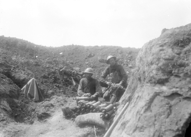 A scene in the Hindenburg Line, showing Australians with a Stokes mortar assisting in the operations near Bullecourt. The gun (covered by a German groundsheet) is on the left of the picture. The soldiers are : 4858 Private A A McTaggart (left), who gained the Belgian Medaille Militaire for fine work during this action 5667 Private E R Carey (right) Both are members of the 2nd Australian Light Trench Mortar Battery, 1st Division. Place made: France: Picardie, Somme Bullecourt Comment : This was part of the Second Battle of Bullecourt. NOTE : This version of the photograph has brightness and contrast artificially increased to highlight details.